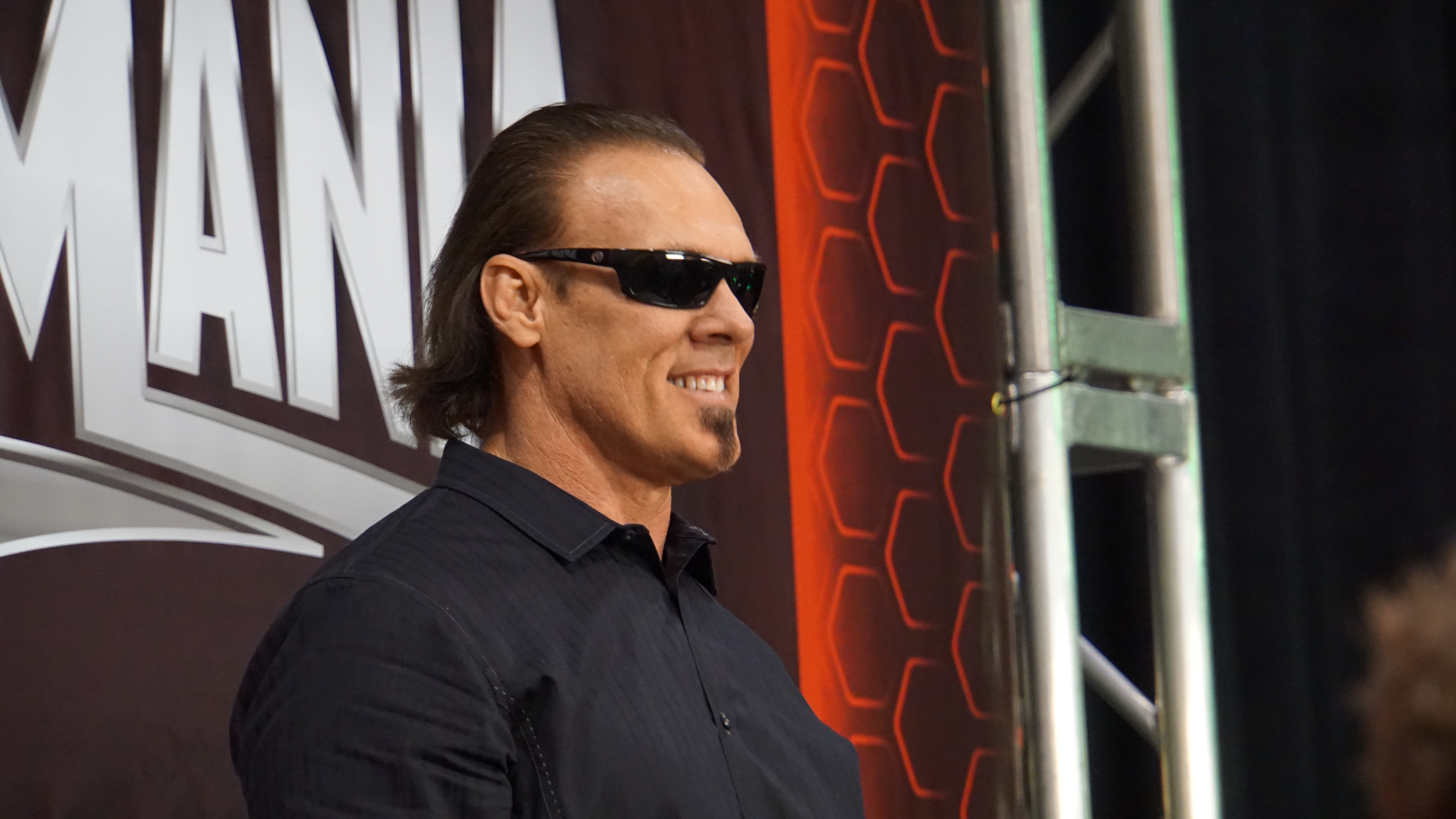 2015-03-28_10-33-20_ILCE-6000_DSC04566